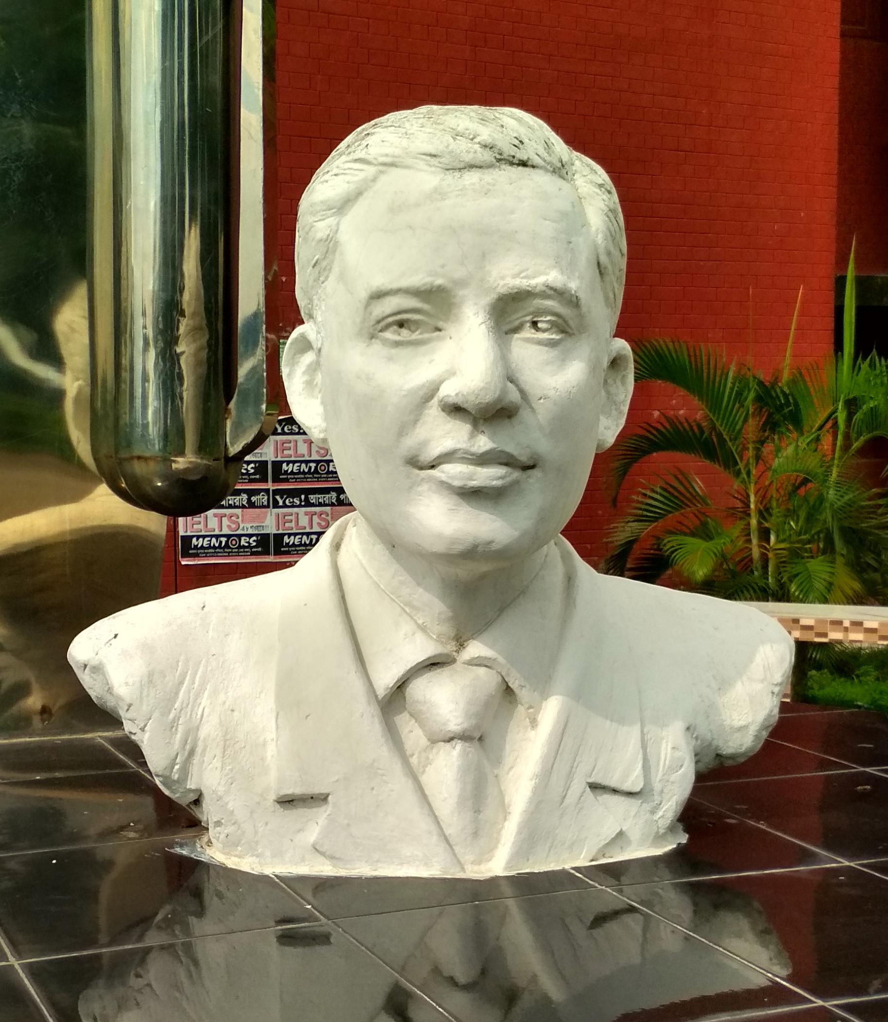 Martyr Habibur Rahman Memorial Sculpture (Bidargho), University of Rajshahi.